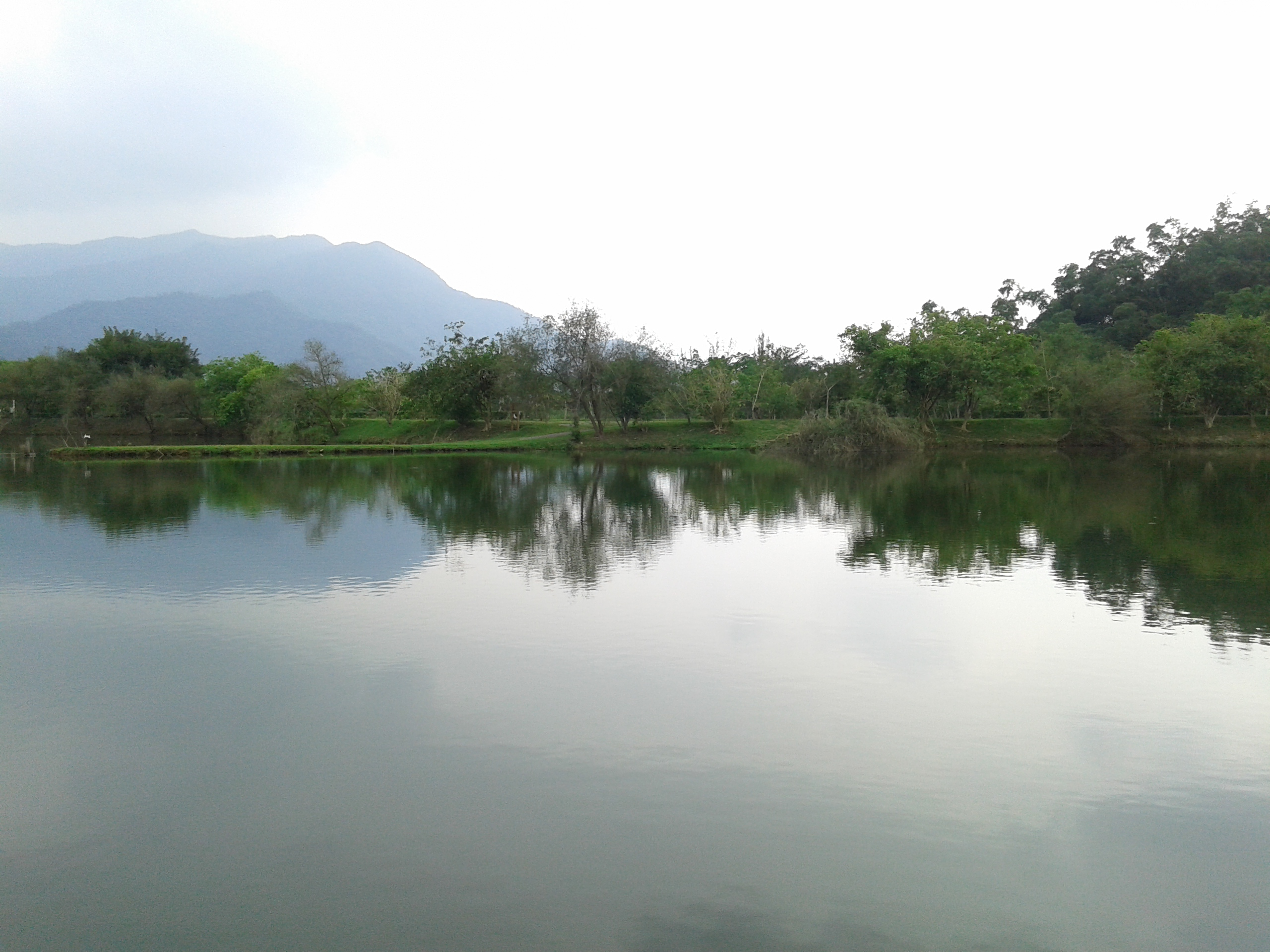 Jing-Si Lake in NPUST.